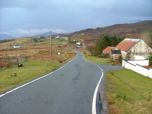 Road to The Braes